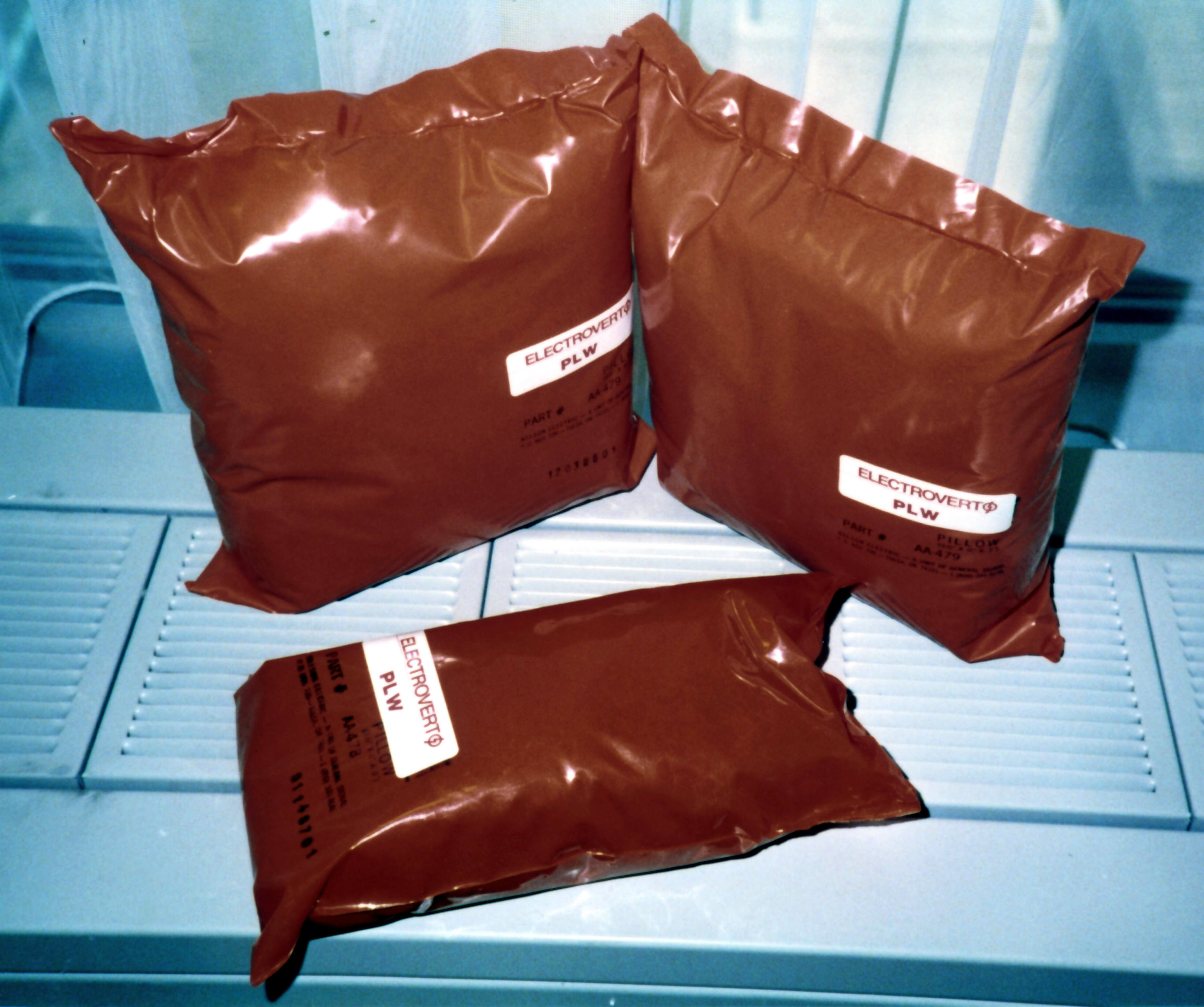 Firestop pillow: a passive fire protection product. This particular example consists of 3 layers of rockwool, 2 of which have been sprayed with an intumescent. The layered bundle is then inserted into a plastic bag, which is heatsealed. Other firestop pillows use loose fills, like vermiculite with graphite, with a fibreglass fabric bag. Firestop pillow installations must conform to strict bounding.